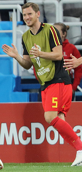 Adnan Januzaj scores against England